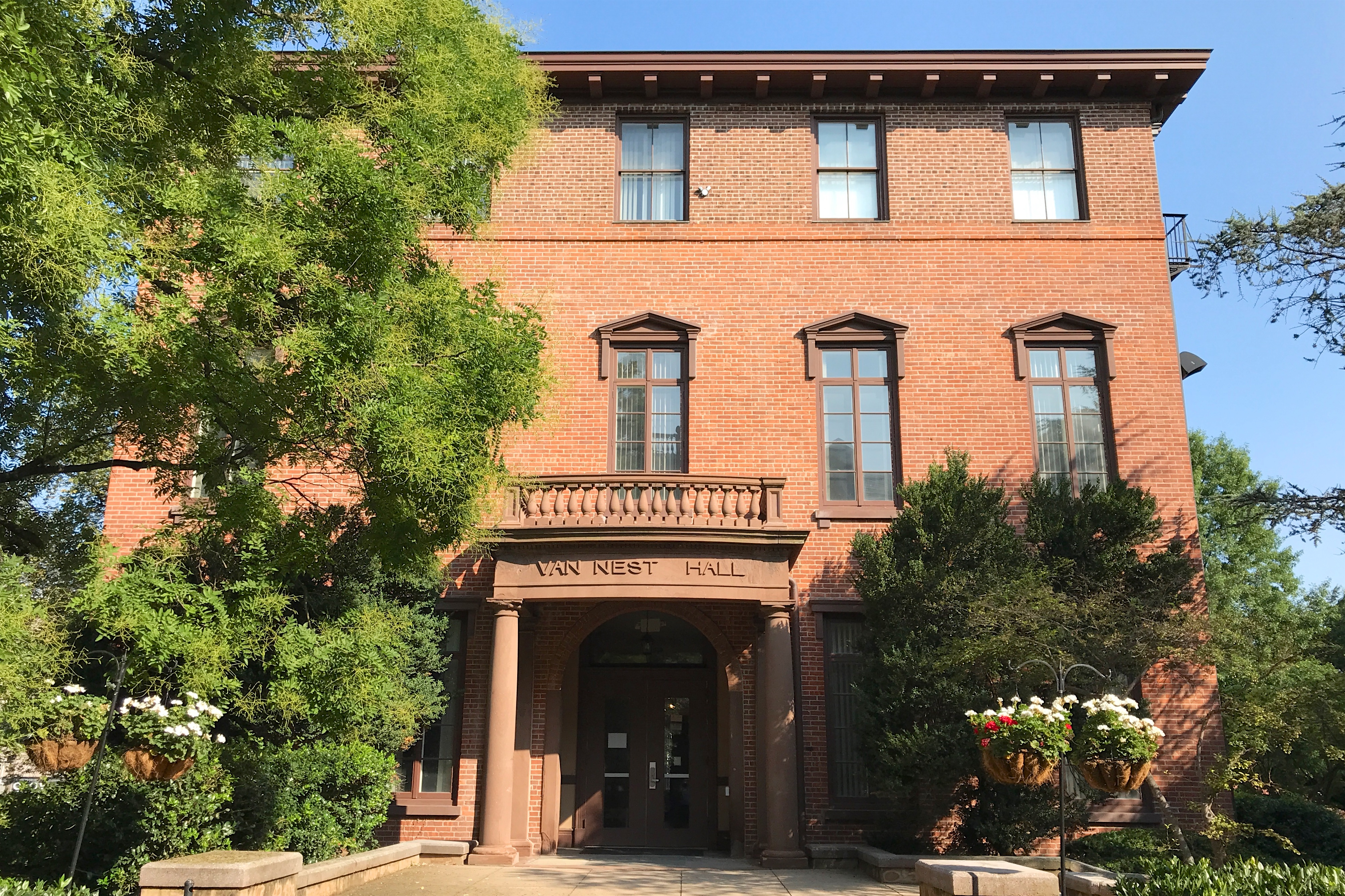 Van Nest Hall in Queens Campus, Rutgers University in New Brunswick, New Jersey.